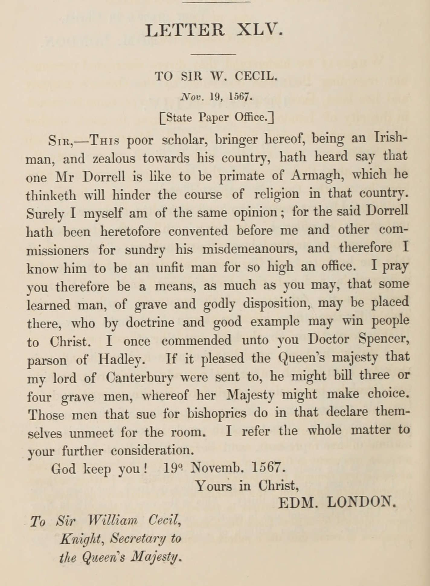 Edmund Grindal sen this letter to William Cecil on 19 November 1567, to protest William Darell's proposed election to the archbishopric of Armagh